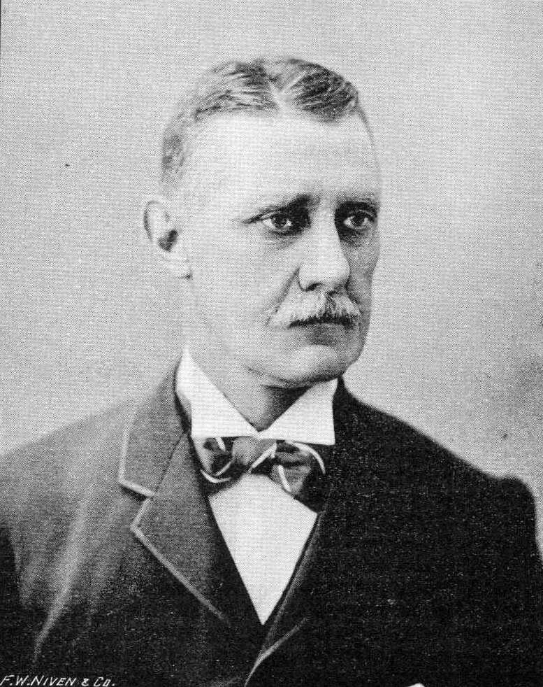 Scan from original